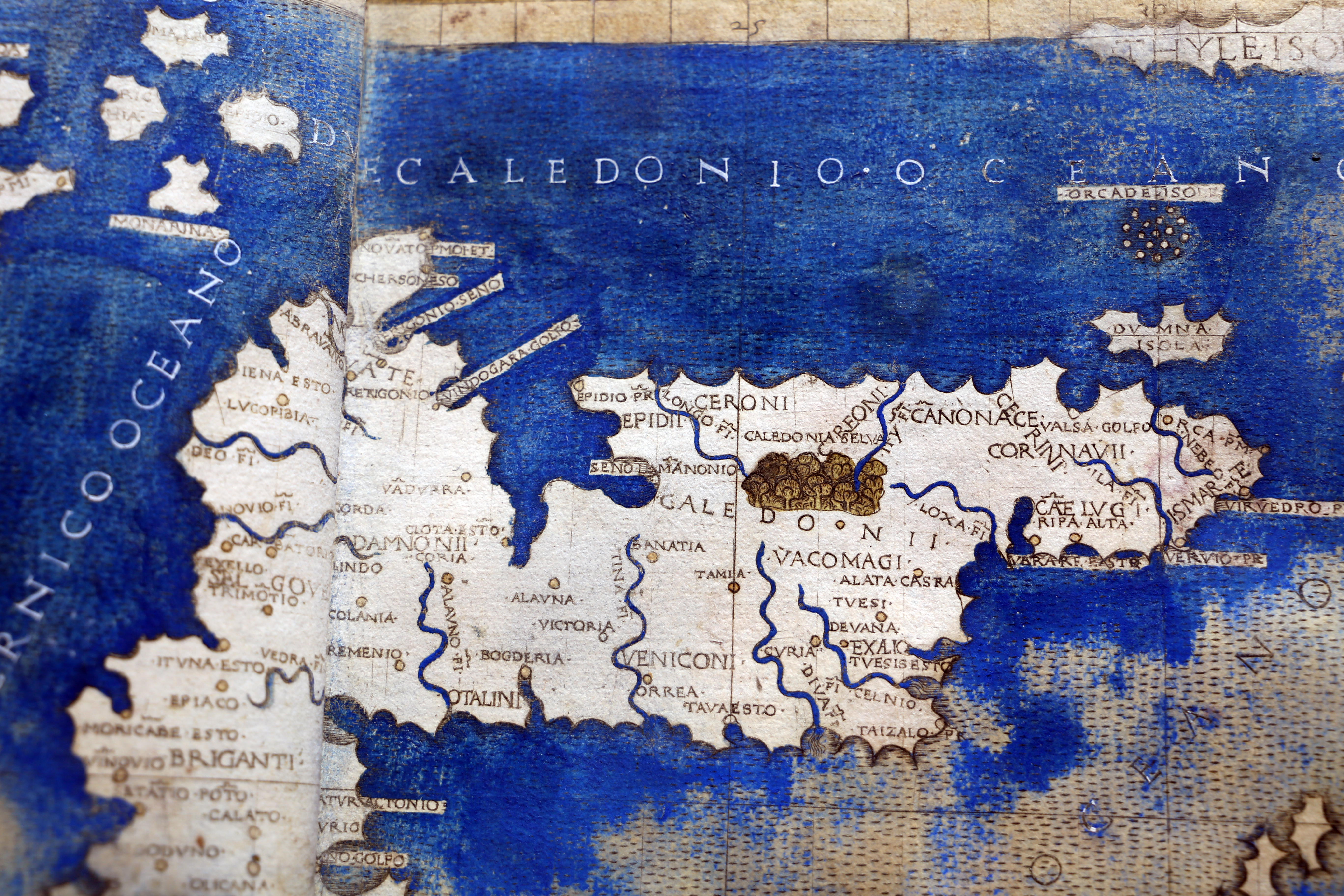 Geographia by Francesco Berlinghieri (Crusca)